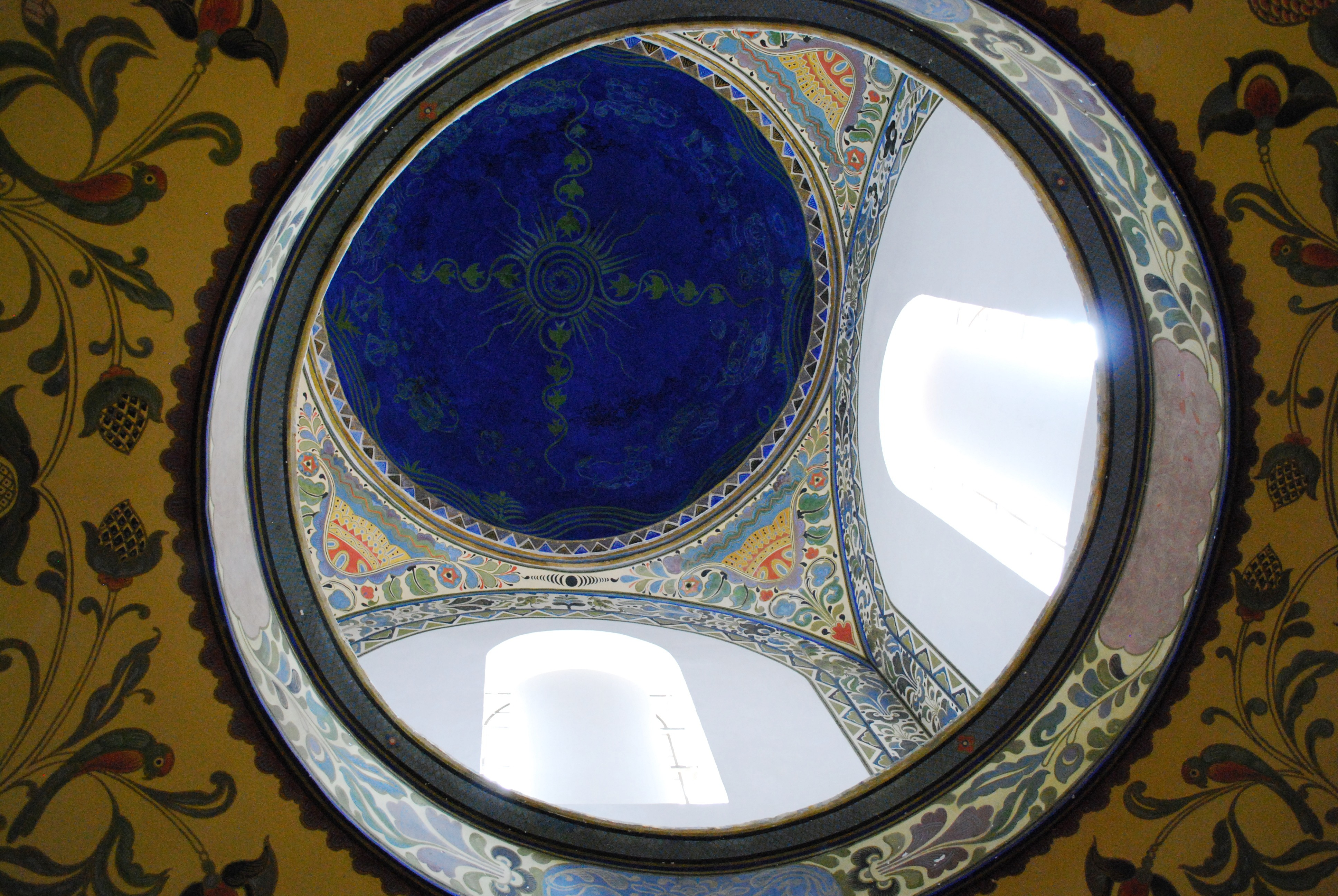 Small cupola painted by Roberto Montenegro and Xavier Guerrero in the 1920's at the Museo de la Luz located in the historic center of Mexico City